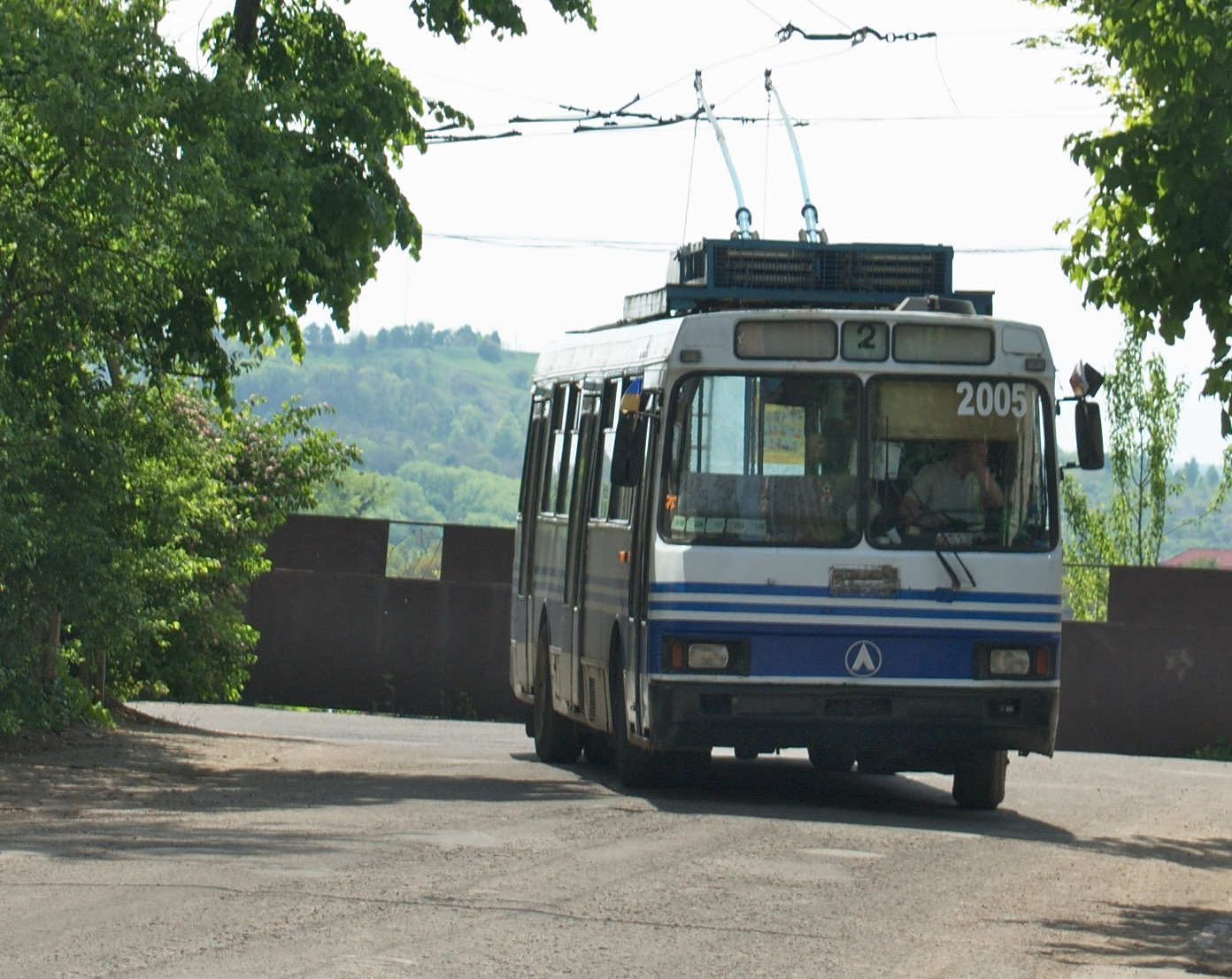 LAZ 52522 Trolleybus in Chernivtsi